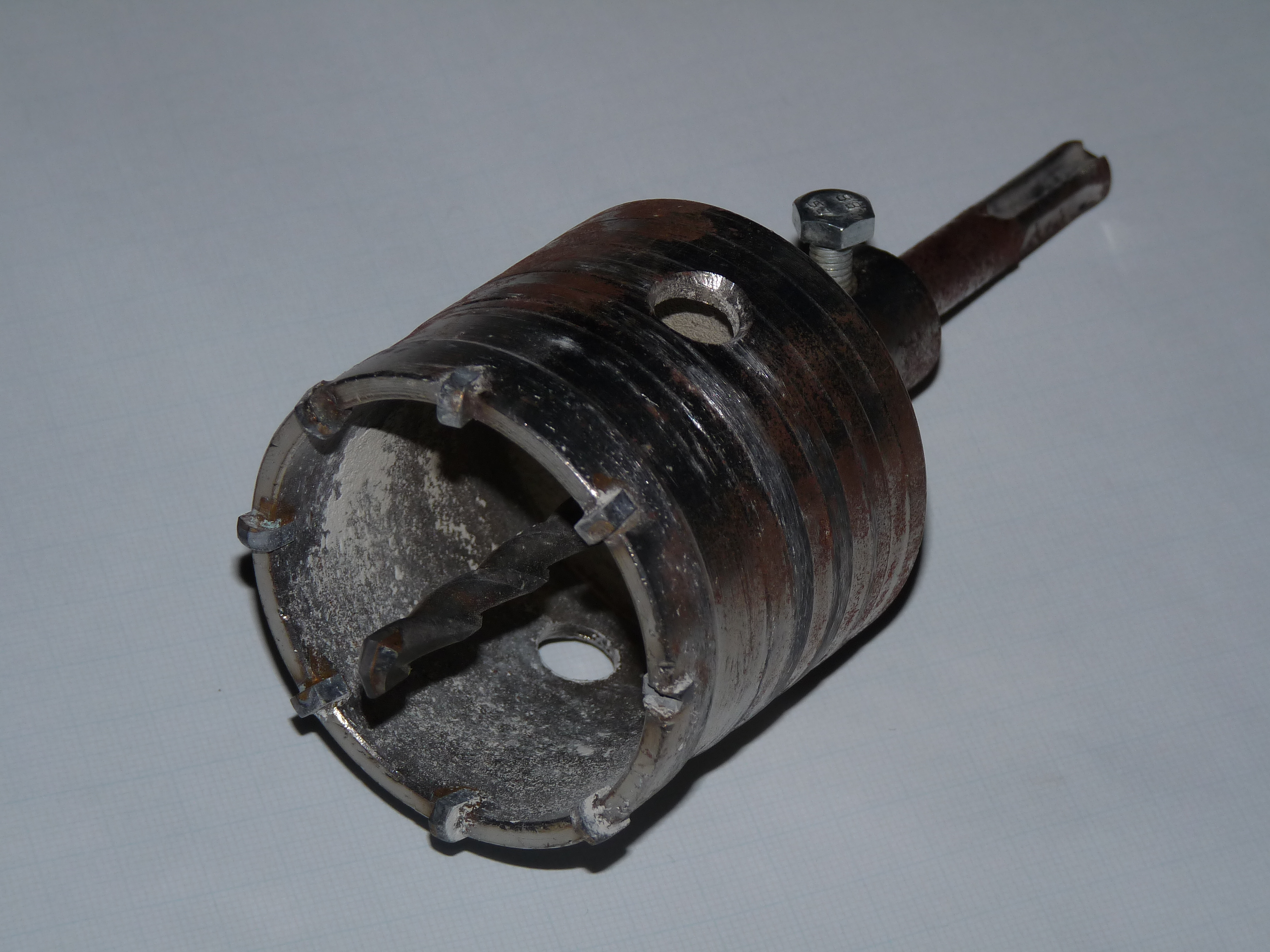 Percussion core drill bit, 65mm